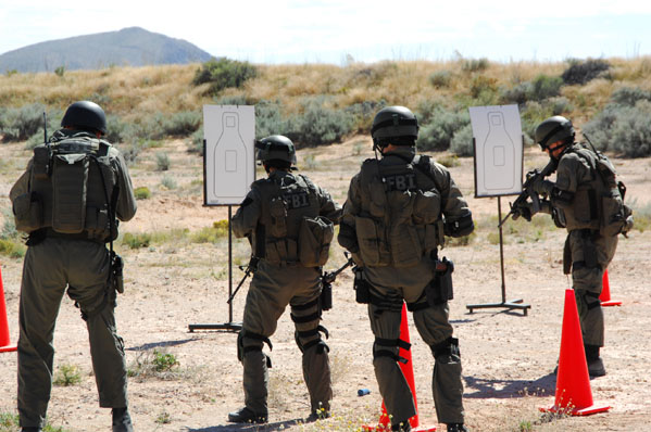 A Picture of FBI SWAT officers. Origionally from